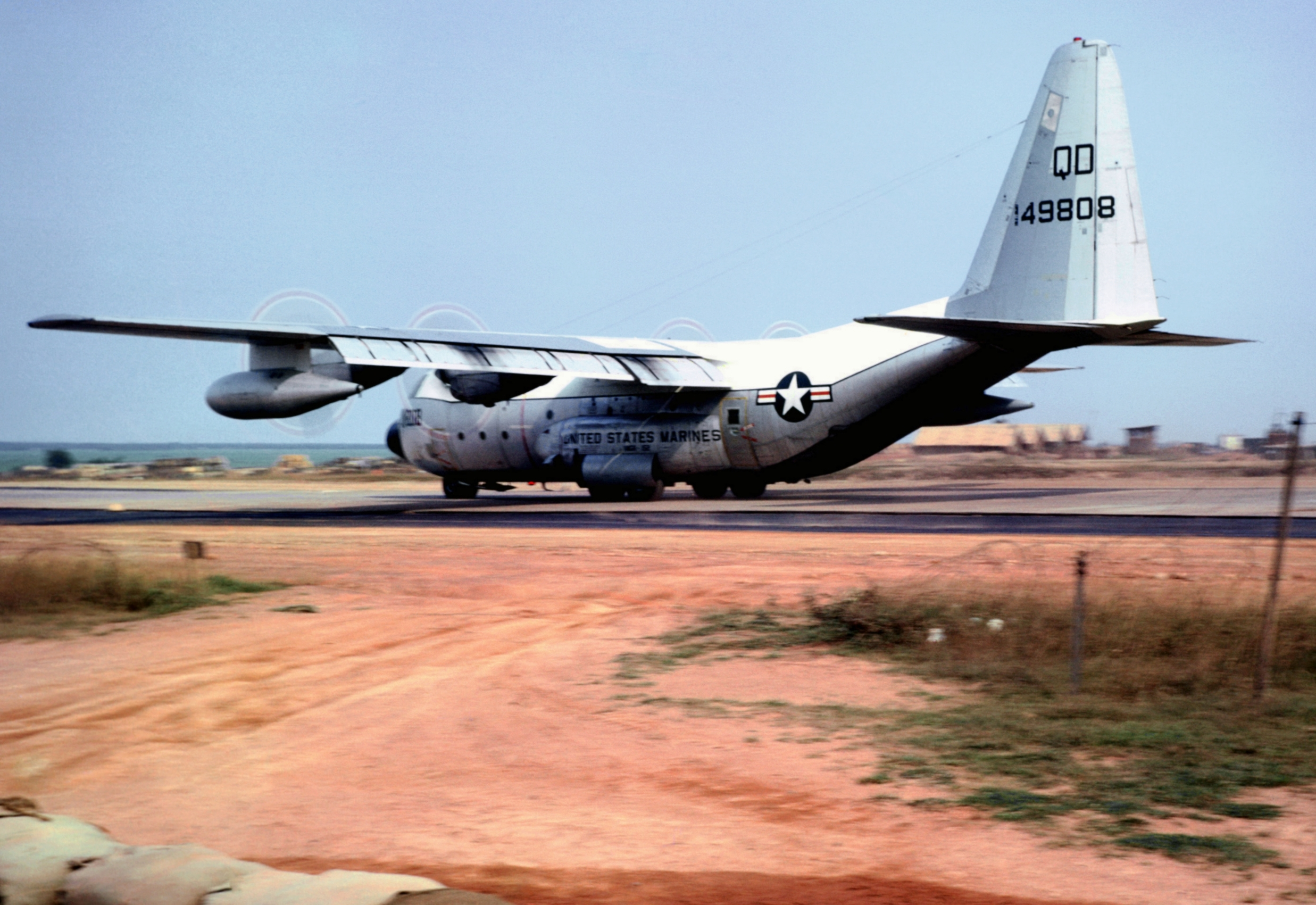 Two U.S. Marine Corps Lockheed KC-130F Hercules (BuNo 149808) from Marine Aerial Refueler Transport Squadron 152 (VMGR-152) Sumos lands on the runway at Đông Hà, Quang Tri Province, Vietnam, in 1967.